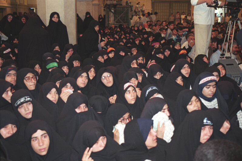 Basiji Students meeting with Supreme Leader of Iran, Ali Khamenei - September 4, 1999